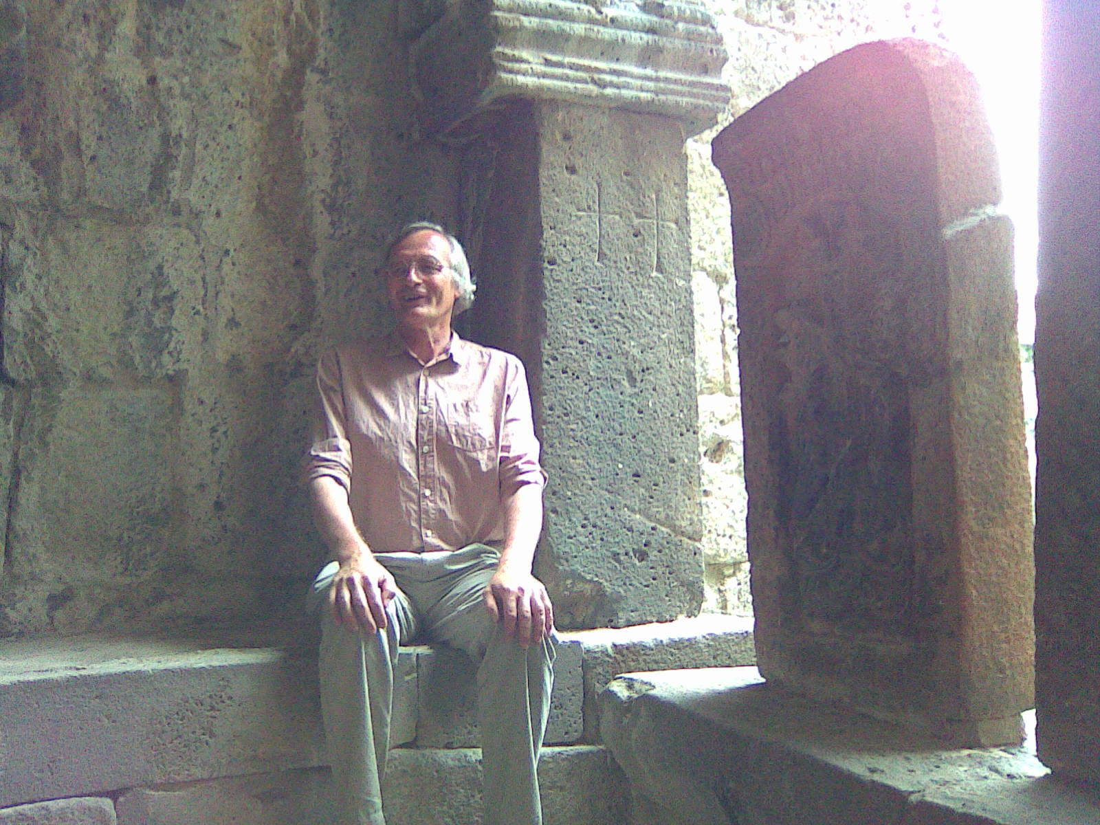 Theo M. van Lint, in Sanahin, gallery van Grigor Magistros, 2013